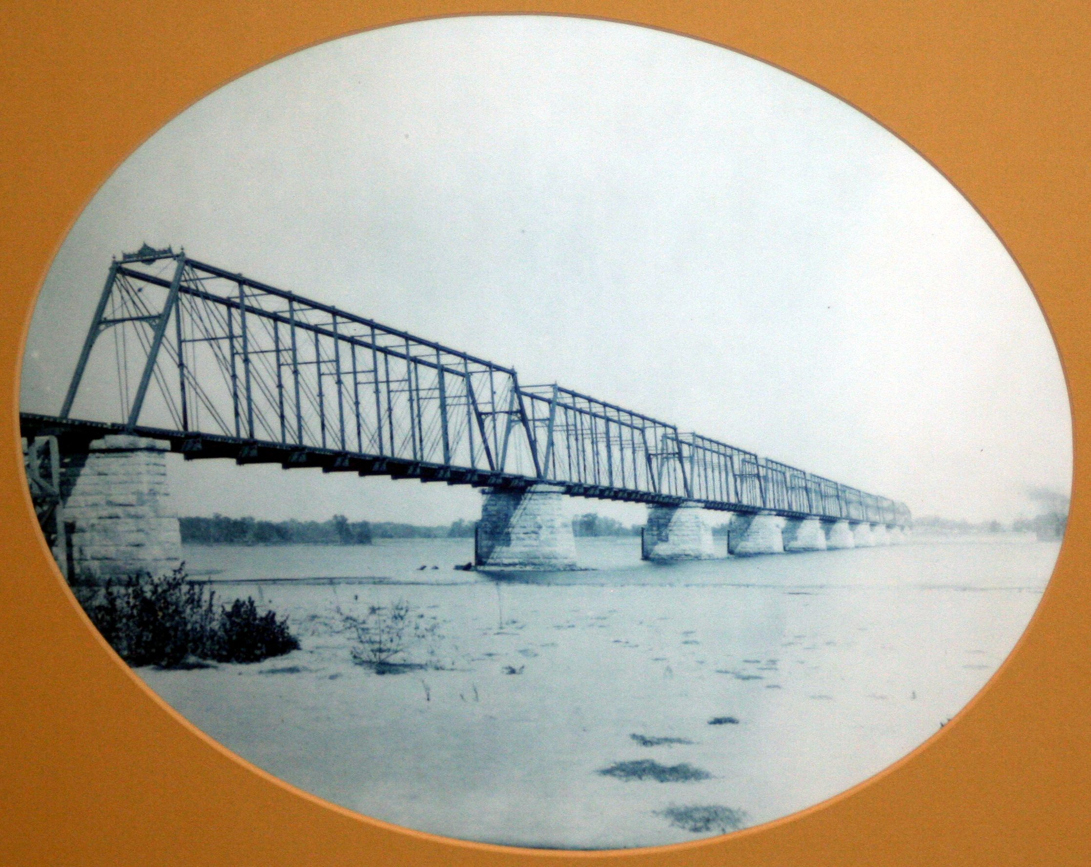 "Iowa Central Railroad Bridge, Keithsberg, Illinois 1889" at Henry Peter Bosse "Views on the Mississippi" exhibition, Ramsey County Historical Society, Landmark Center, Saint Paul, Minnesota. Photo of a modern reproduction of a Bosse photo from a volume found by the U.S. Corps of Engineers aboard the Dredge William A. Thompson.